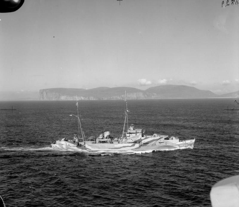 Aerial photograph of British auxiliary anti-aircraft ship HMS Palomares.